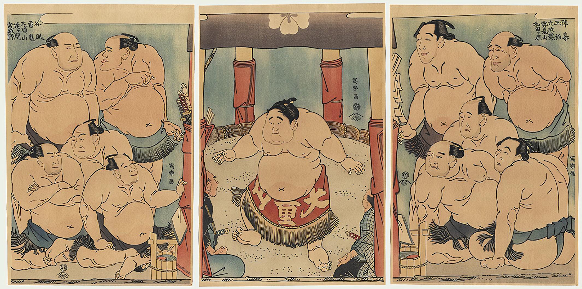 Triptych ukiyo-e print by Tōshūsai Sharaku, Boy Wrestler Daidozan in the Ring. This is a scan of a reprint from the Taishō era (1912–1926) by Takamizawa.